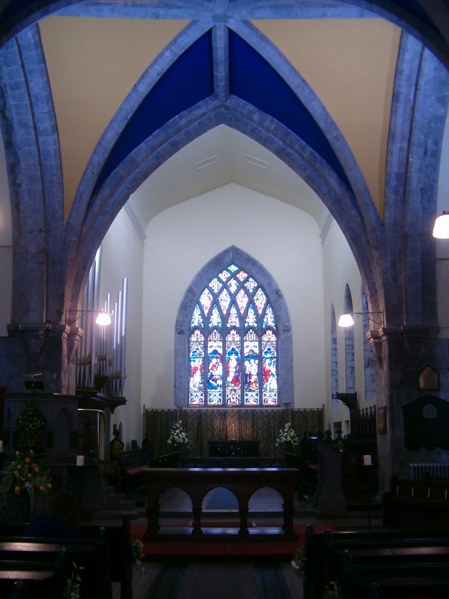 Description :' St. Nicholas' Collegiate Church of Galway (Ireland). Author: Vincent Roux Date: 18/04/2006